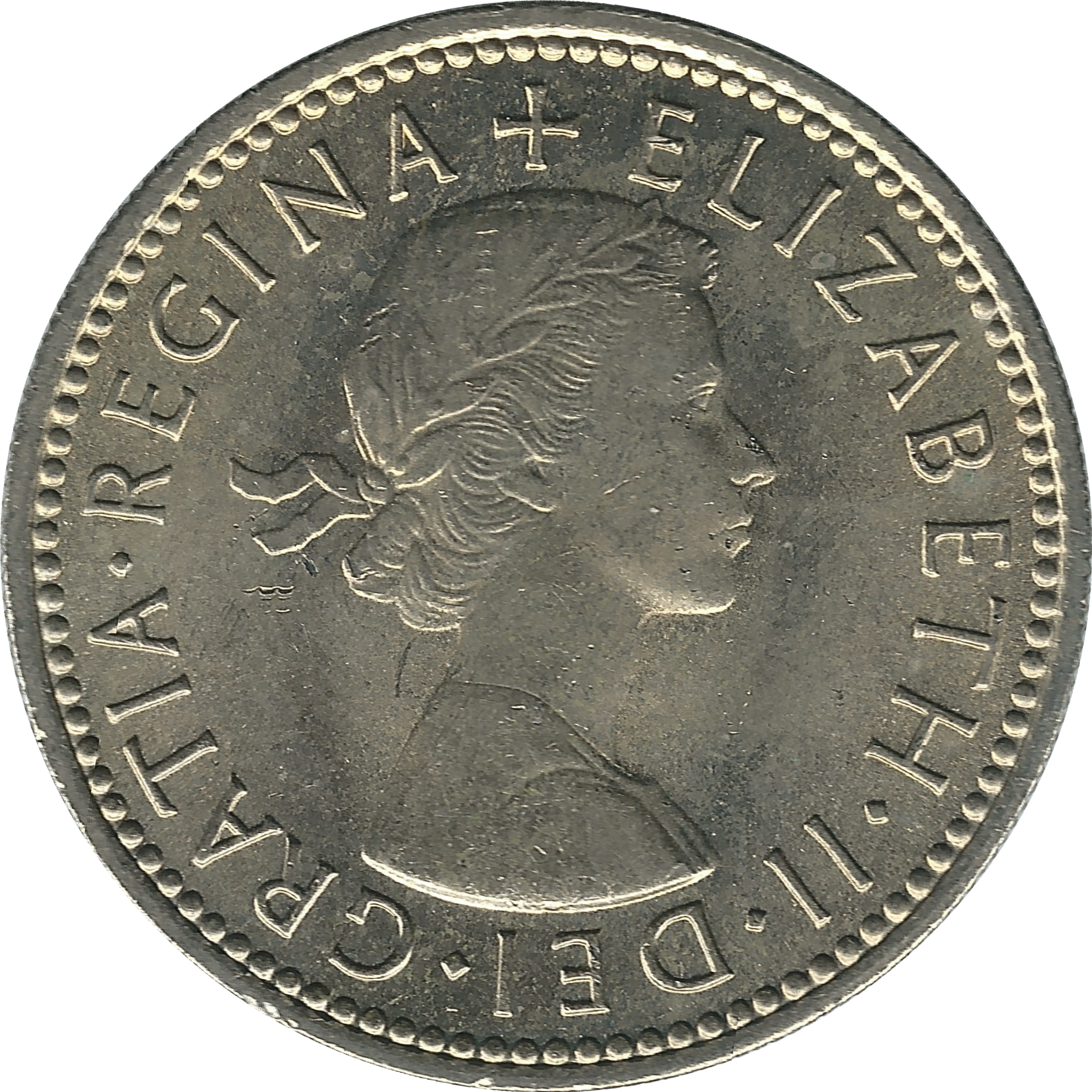 Obverse of the British 1963 shilling